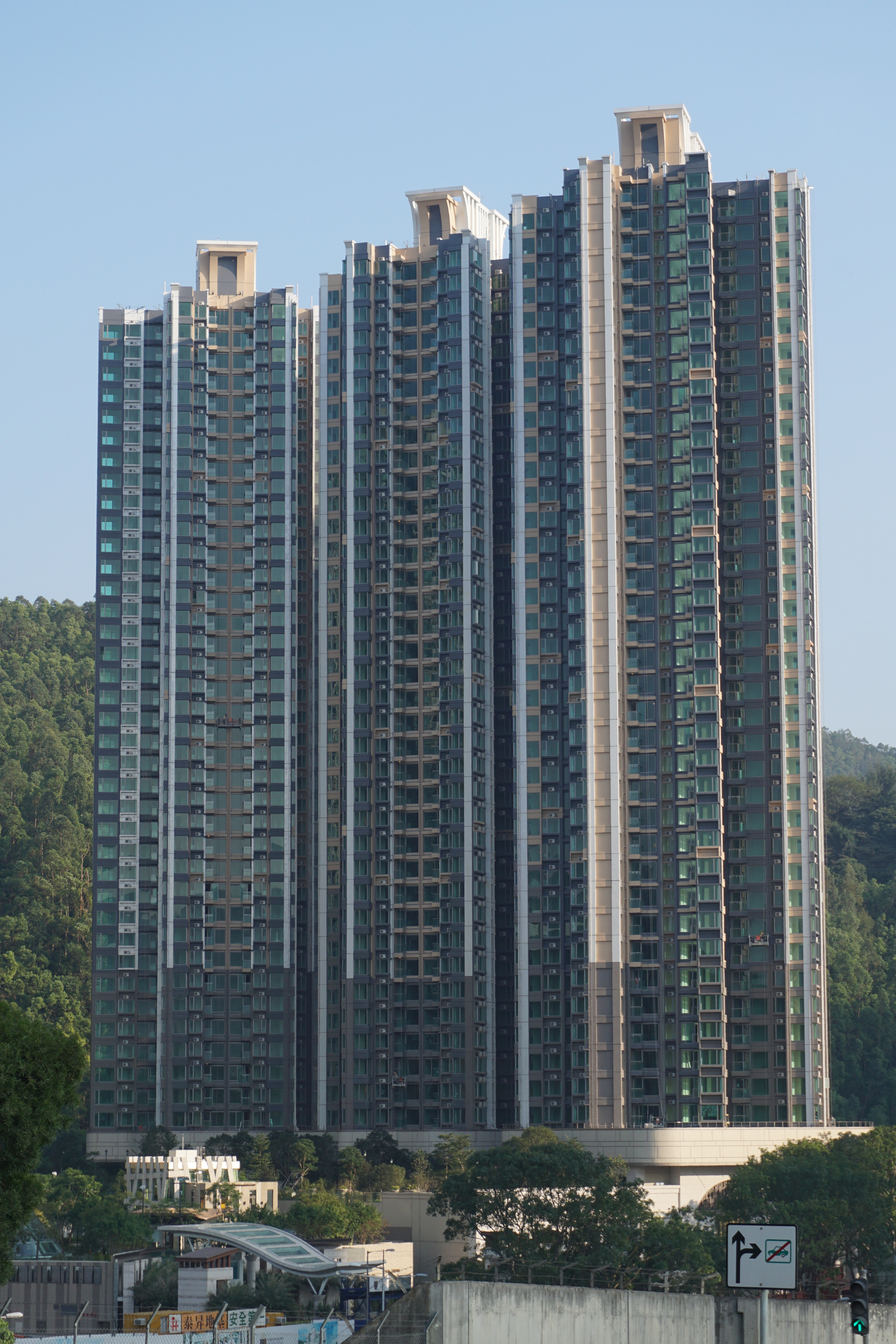 The Beaumount in Tseung Kwan O, Hong Kong.